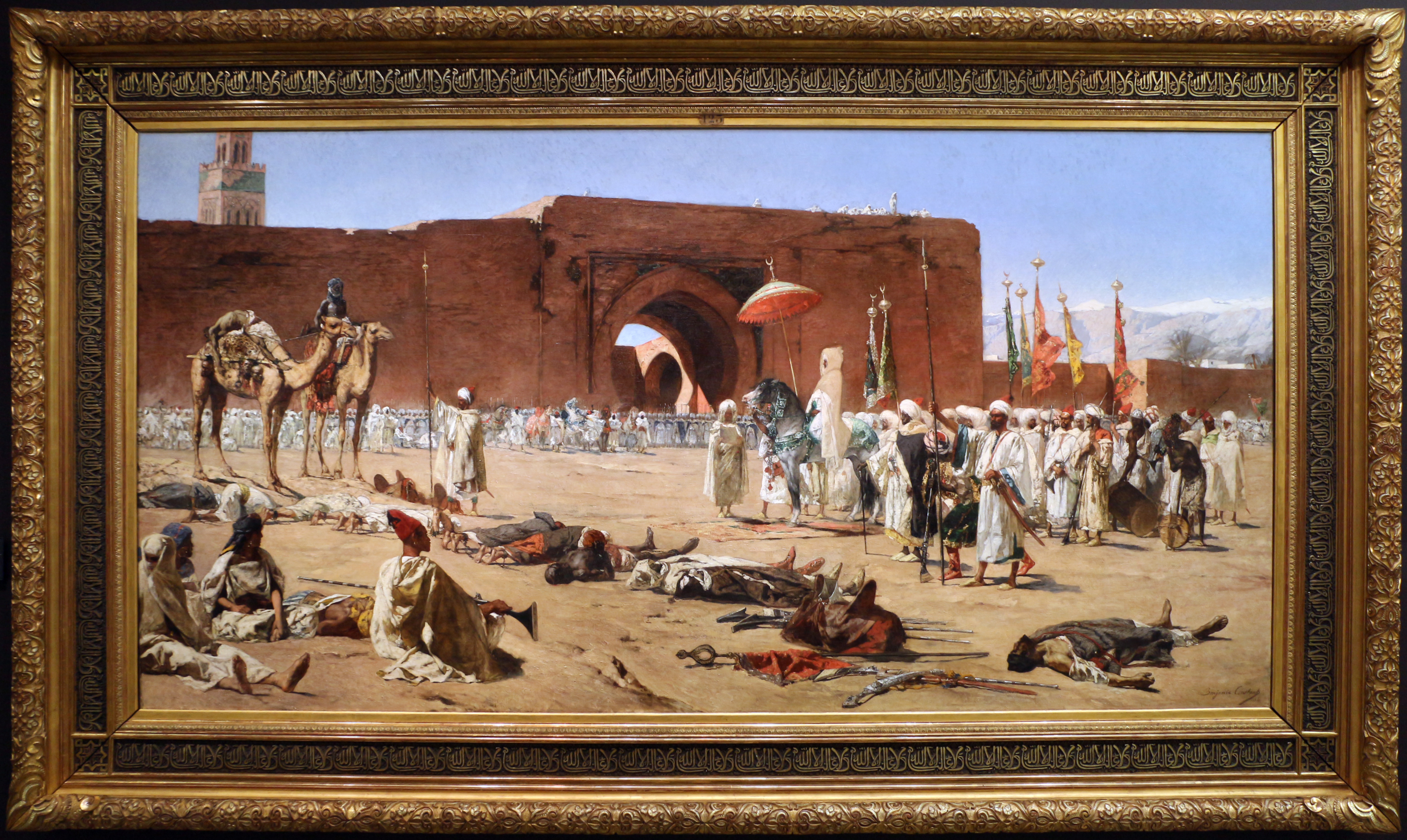 Paintings in Musée d'Orsay